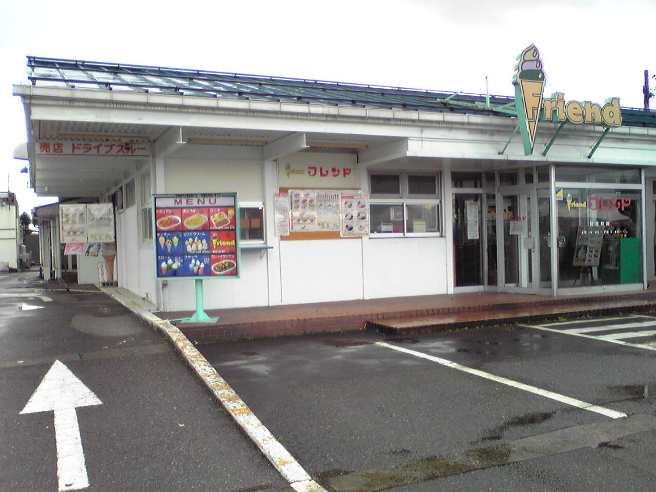 Friend Kitamachi shop, Nagaoka, Niigata, Japan. Here is the store that drive-through was set up first in Japan.